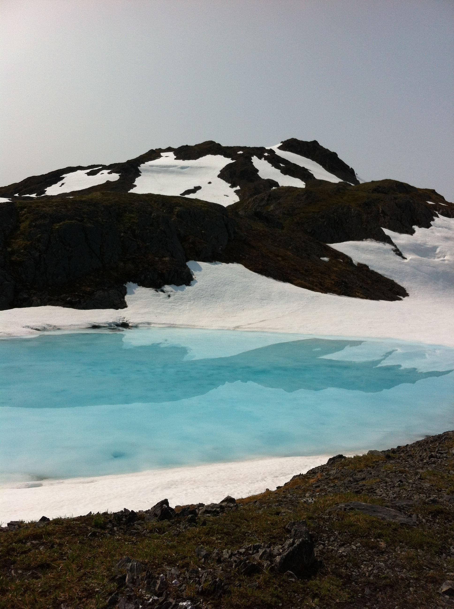 Snow and meltwater on an alpine ridge on the flank of Center Mountain, Kodiak, Alaska, taken during summer. Photograph by Nick Longrich.